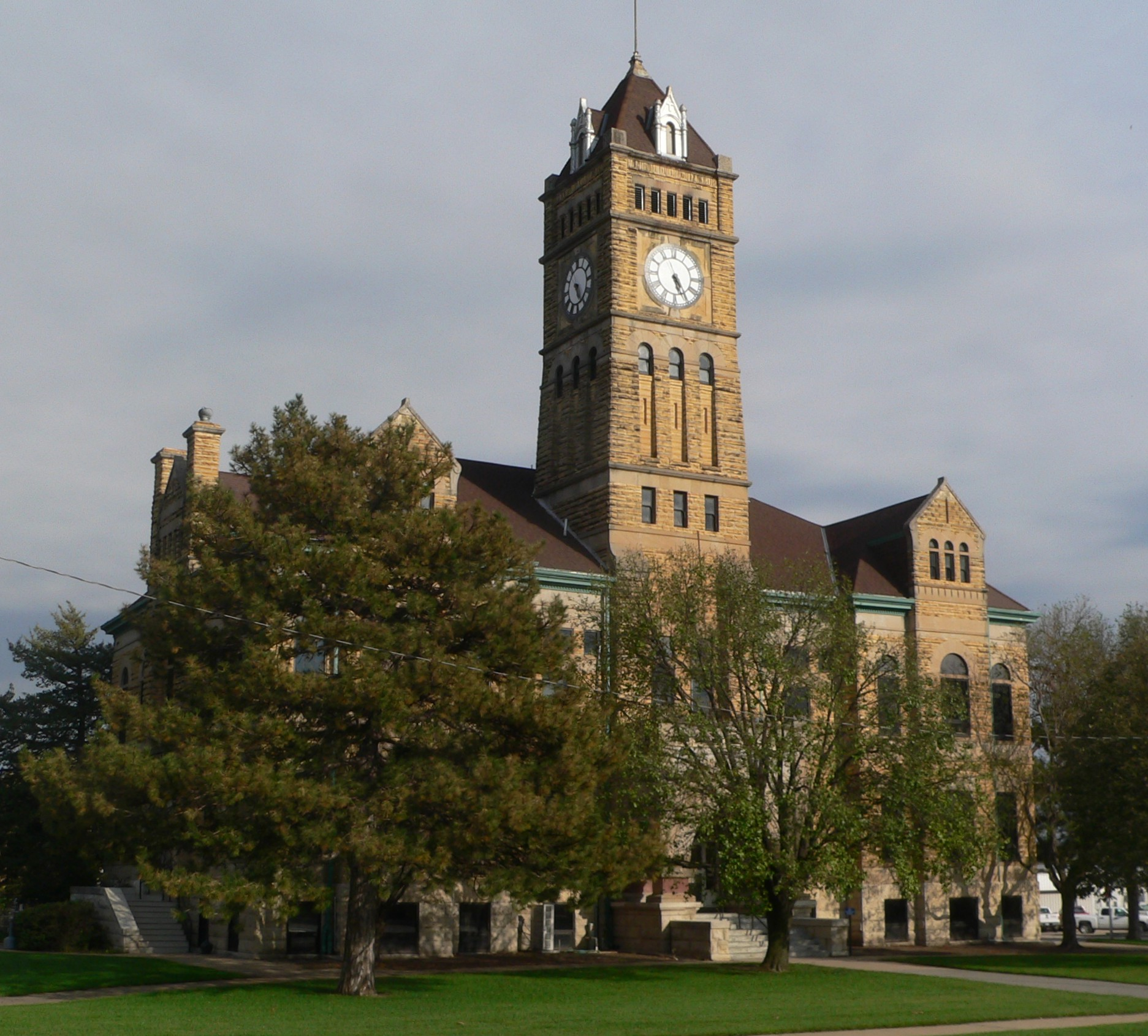 Mitchell County courthouse in Beloit, Kansas; seen from the northwest.